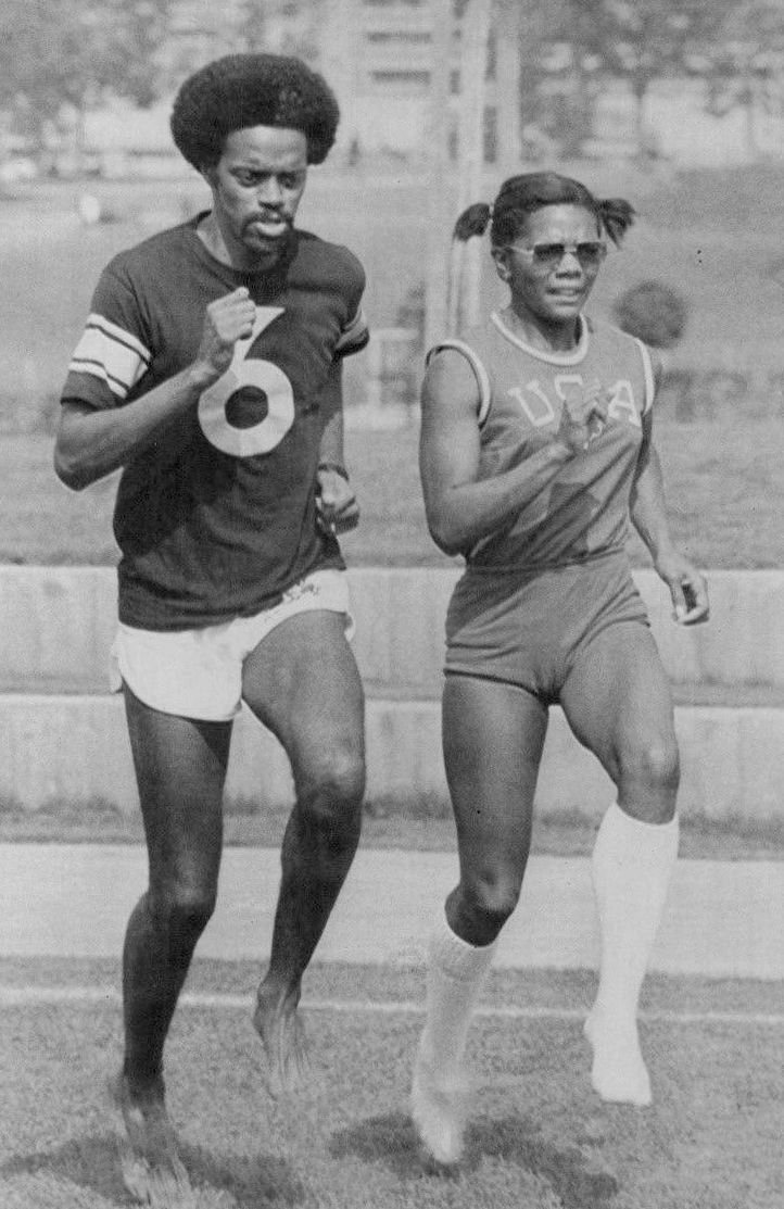 LG18 1972 Wire Photo RALPH BOSTON MAMIE RALLINS Munich Olympics Hurdles Training